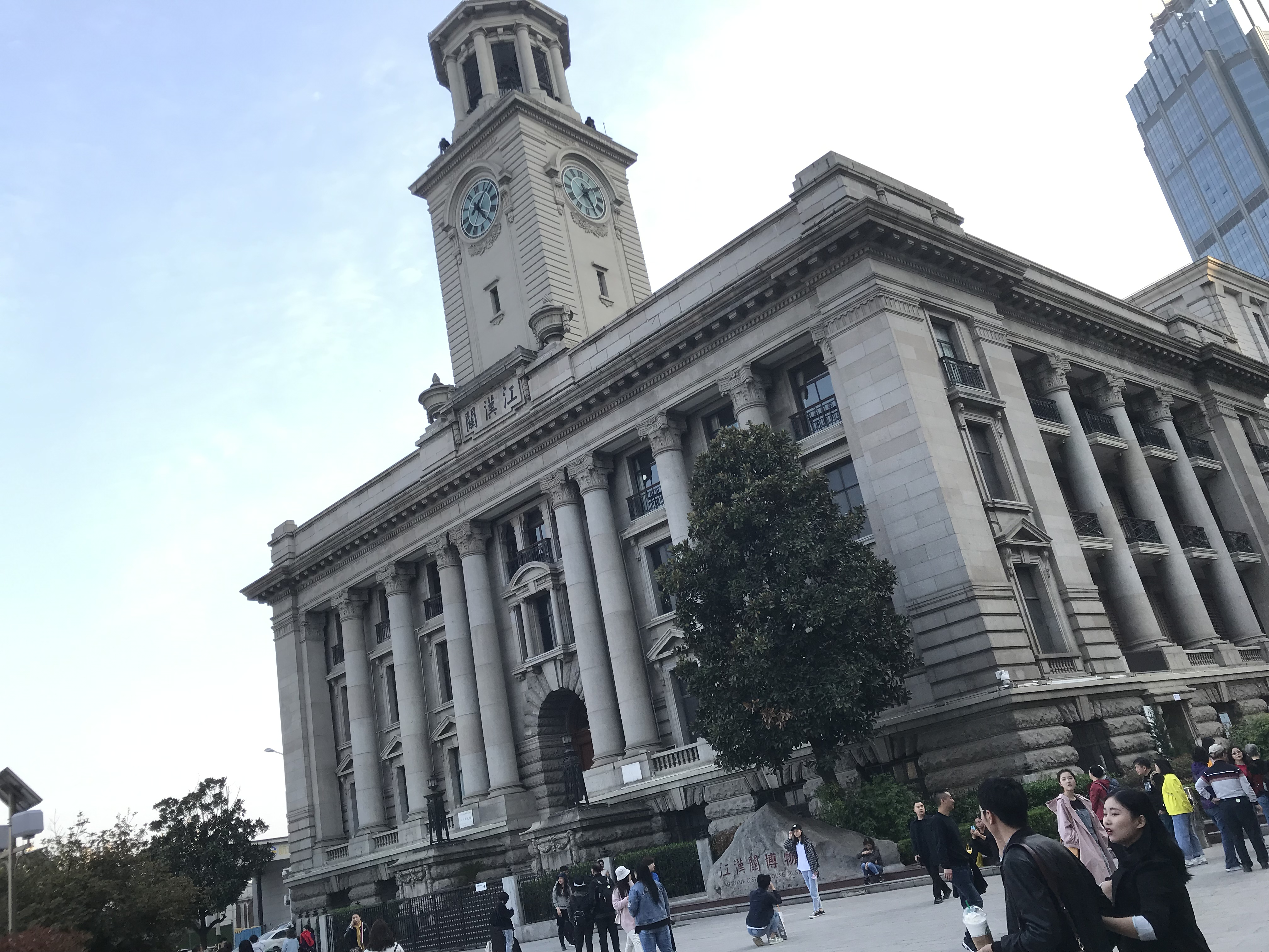 Hankow Customs House Museum in the daytime